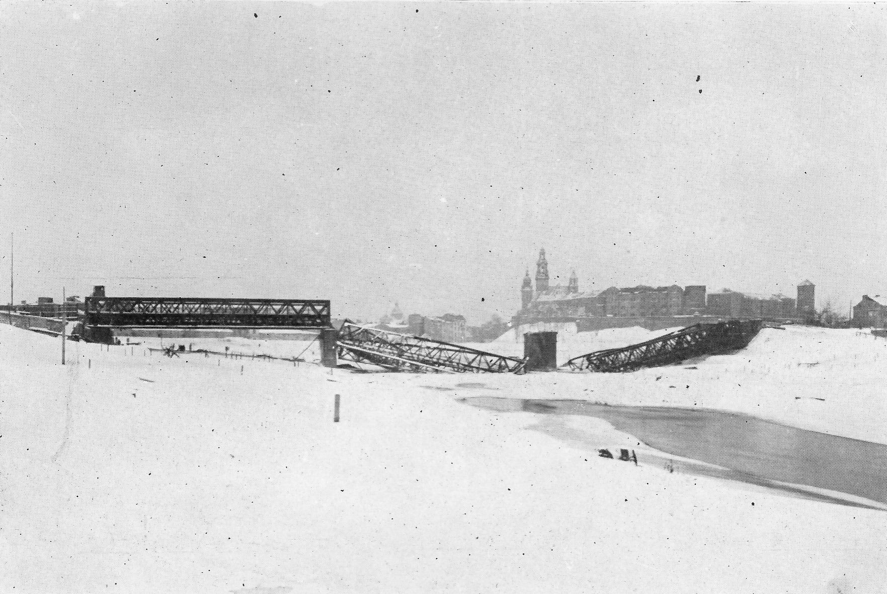 Dębnicki Bridge over Wisła river destroyed by Germans in January 1945. In the back one can see Wawel.